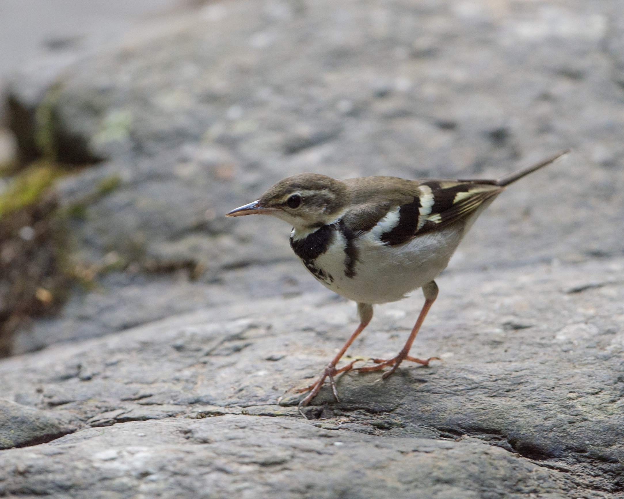 Forest Wagtail (Dendronanthus indicus) at Kaeng Krachan National Park, Thailand